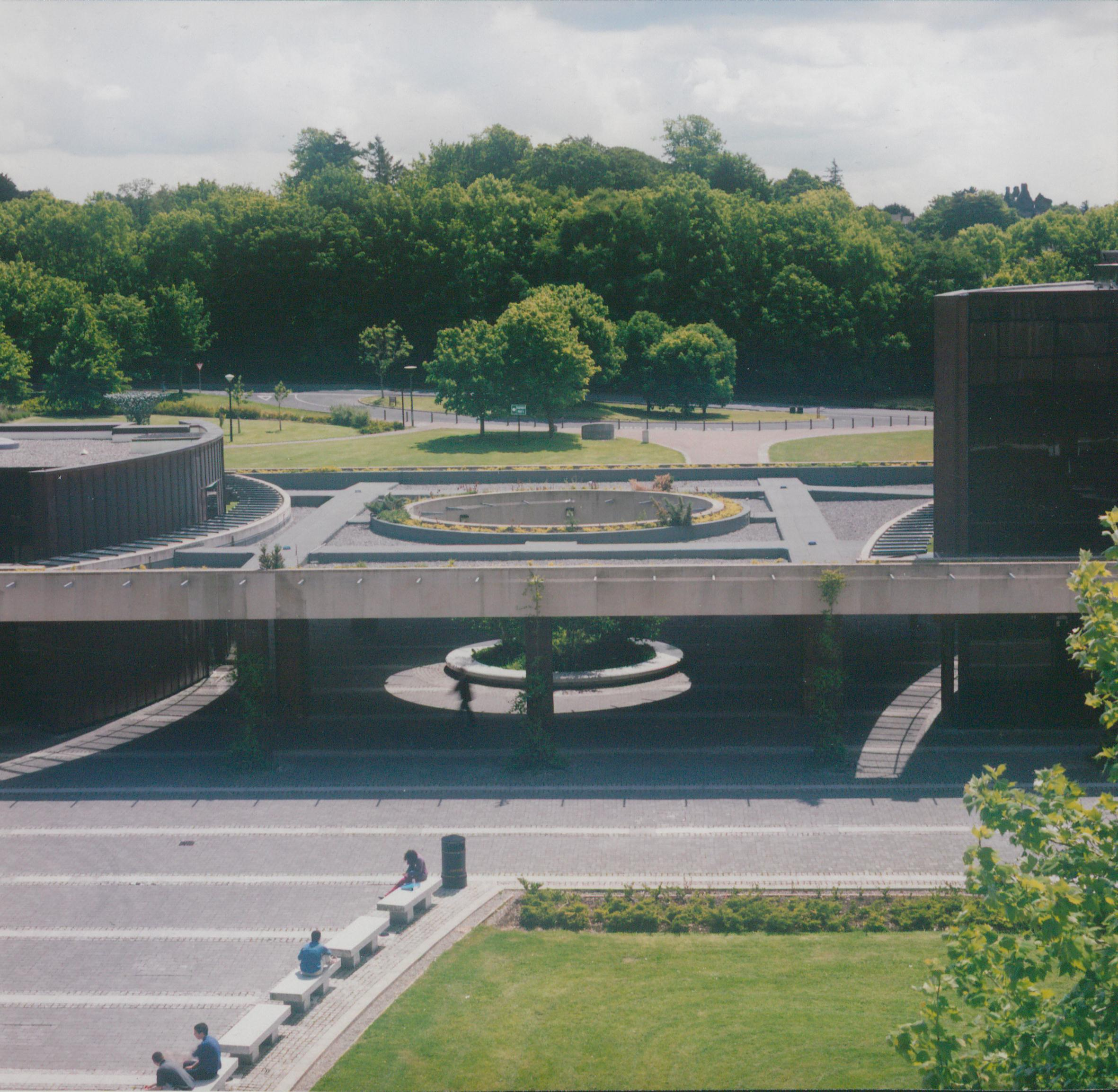 UL40_Box23_Folder19_001 Eoin Stephenson